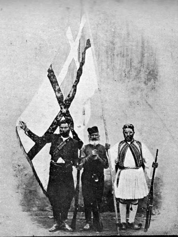 Flag used by Christian insurgents in Crete